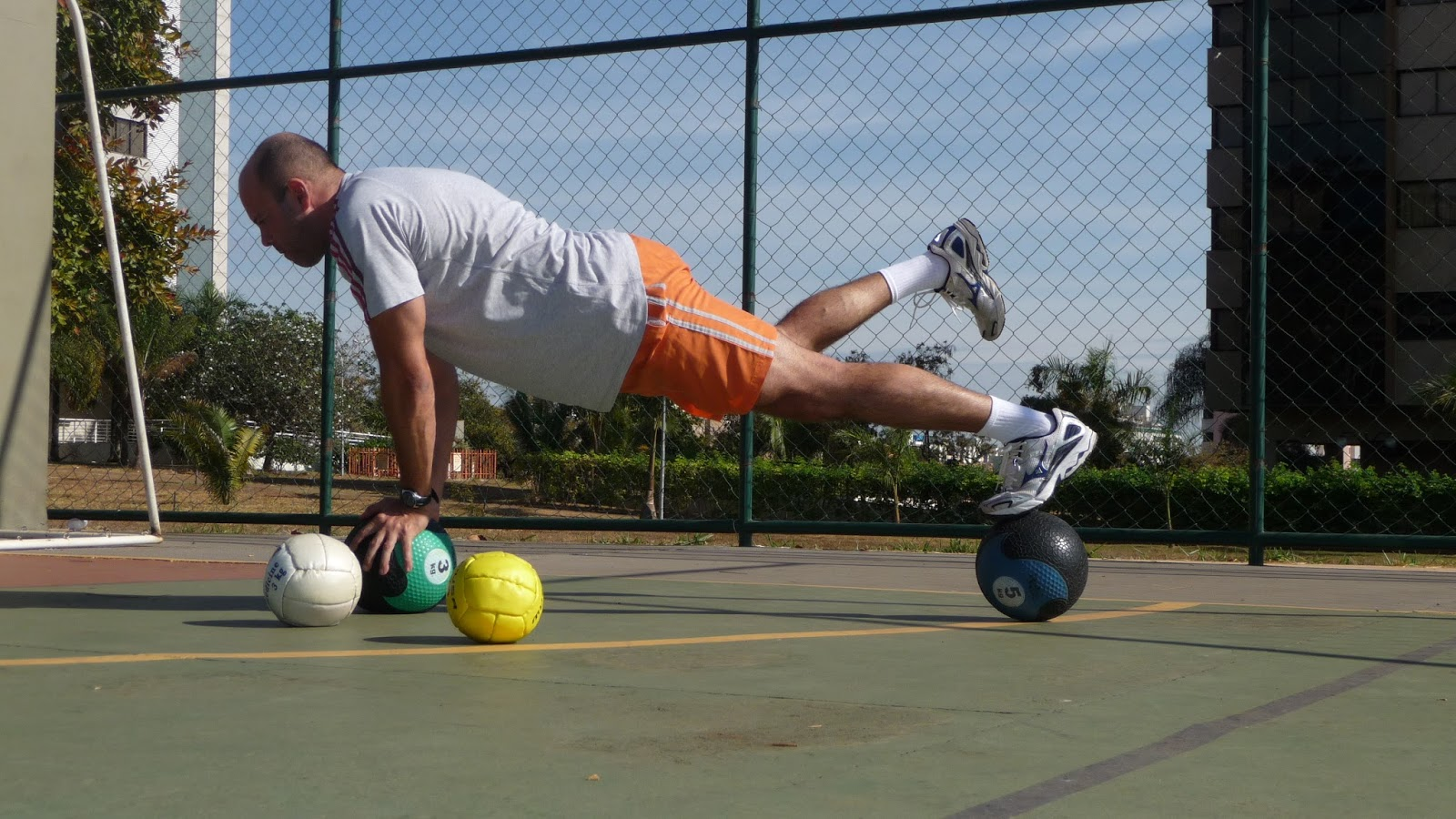 Medicine ball plank